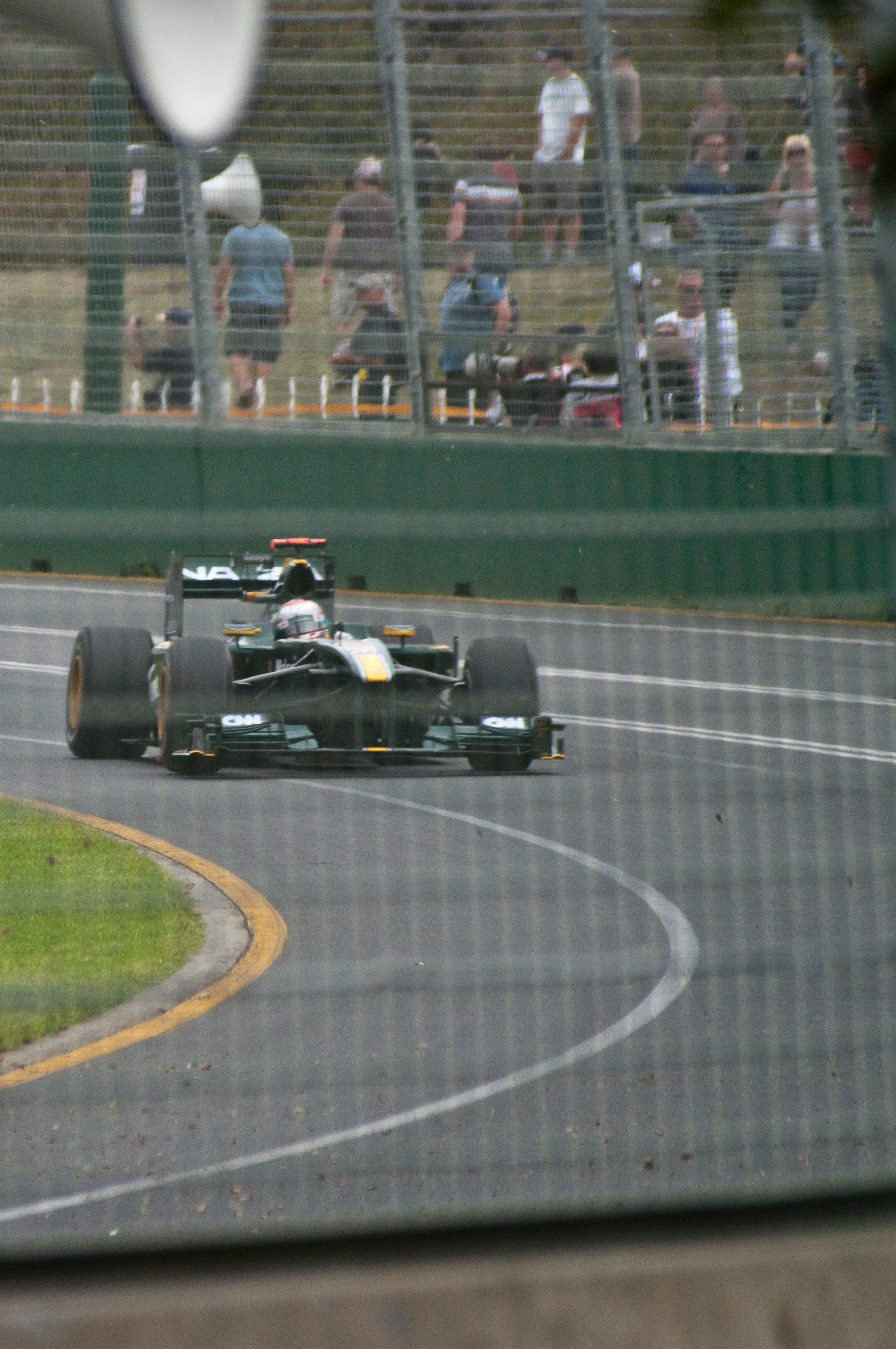 Jarno Trulli driving for Lotus Racing at the 2010 Australian Grand Prix.